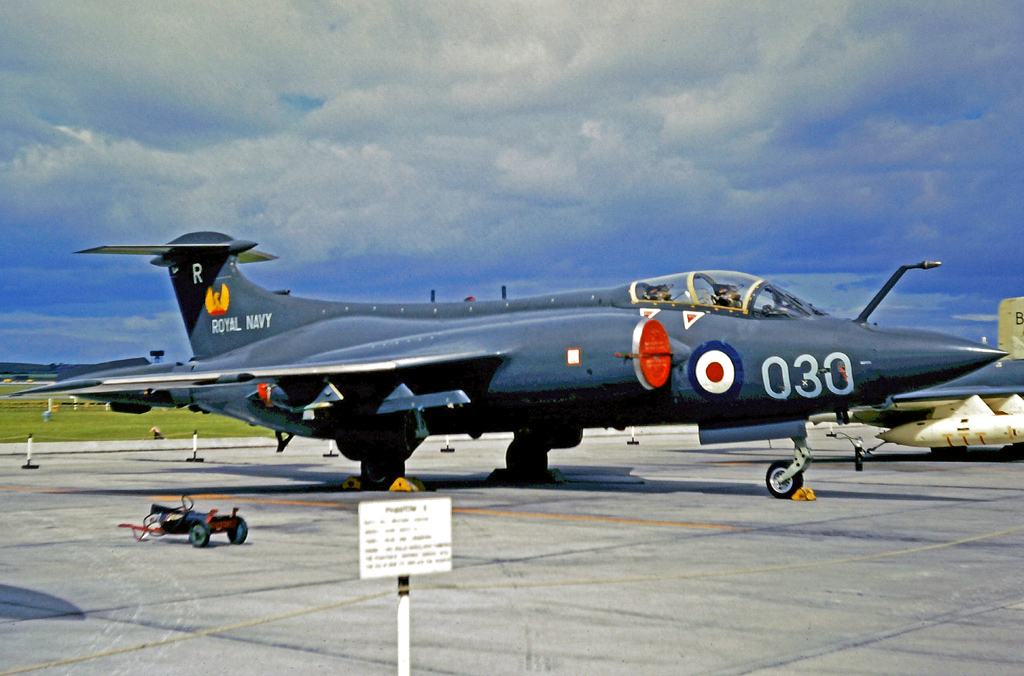 Blackburn (Hawker Siddeley) Buccaneer S.2 XN977 of 809 Squadron FAA at RNAS Lossiemouth in 1970